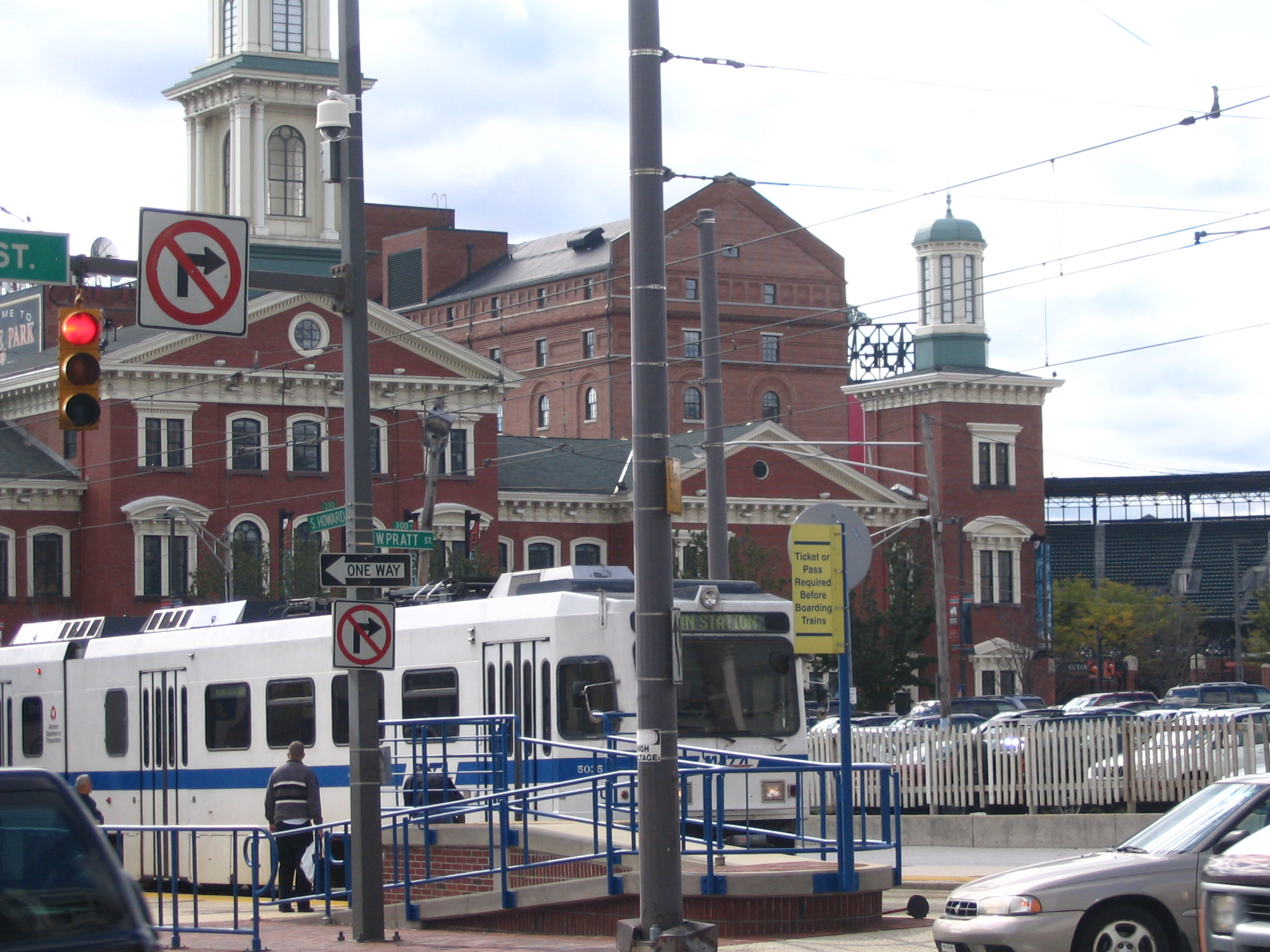 A Baltimore Light Rail train at Pratt Street (now Convention Center) station in 2005